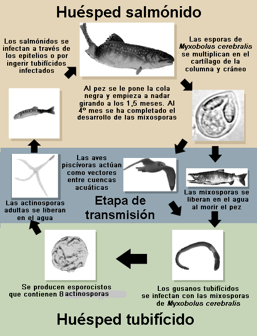 Life cycle of Myxobolus cerebralis with labels in Spanish